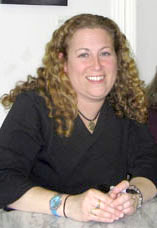 Jodi Picoult at a 2007 book signing for Nineteen Minutes in Exeter, New Hampshire